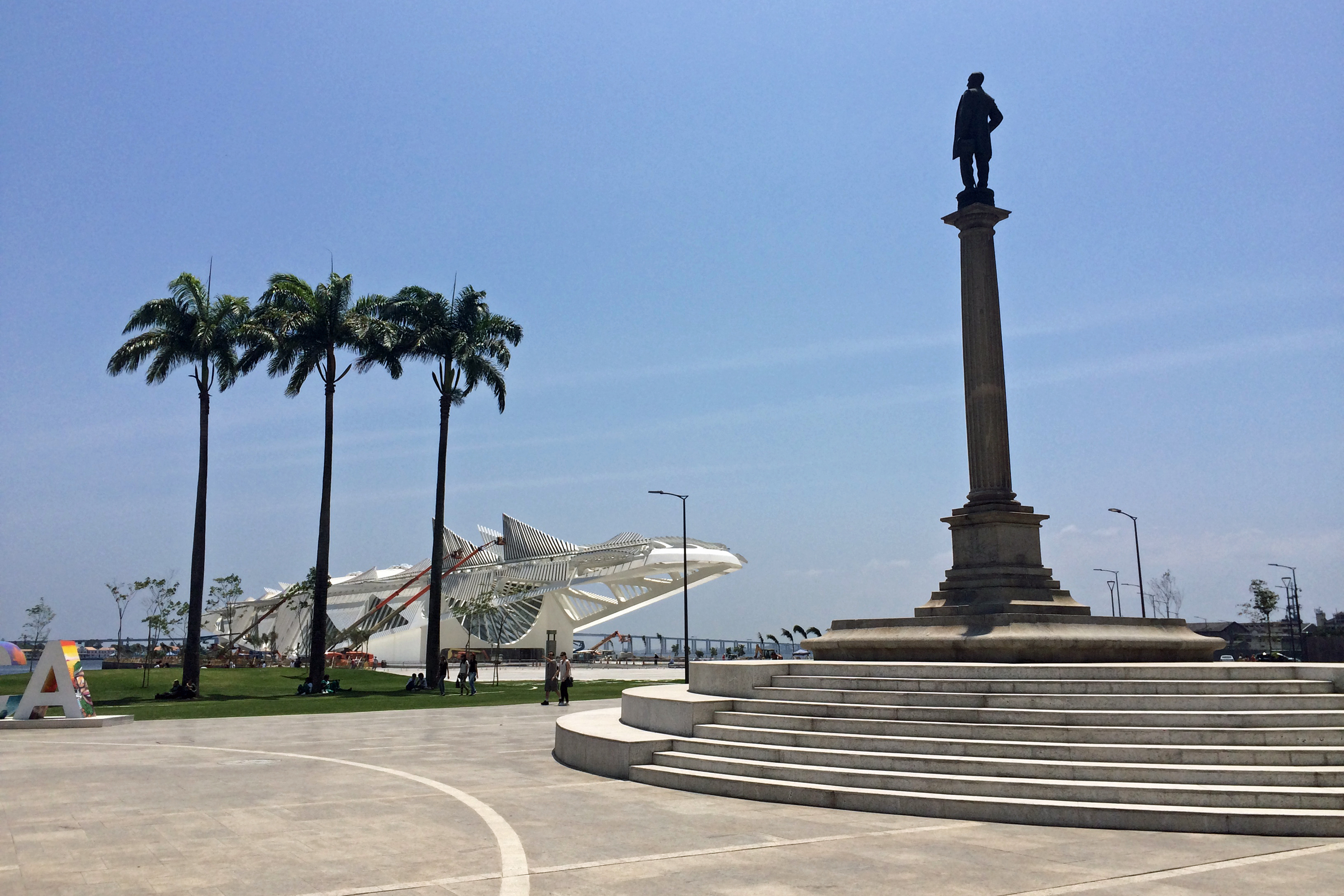 Praça Mauá, Rio de Janeiro. Left,Museu do Amanhã, right, Monumento ao Visconde de Mauá.